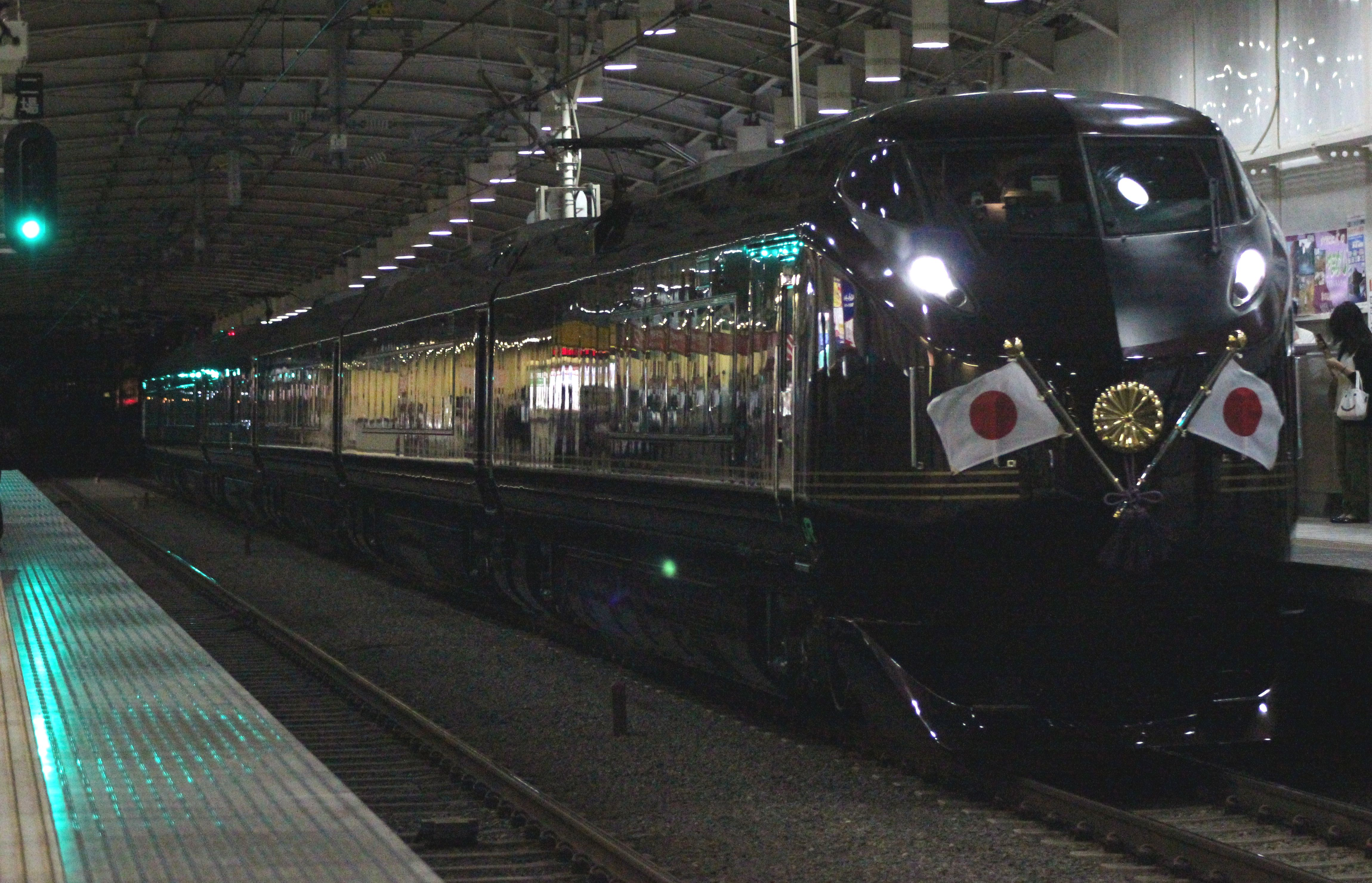 The JR East E655 series EMU on an imperial train working at Musashi-Sakai Station on the Chuo Line